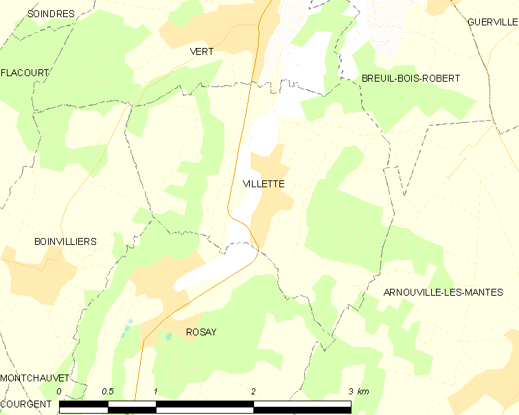 Map of French municipality Villette